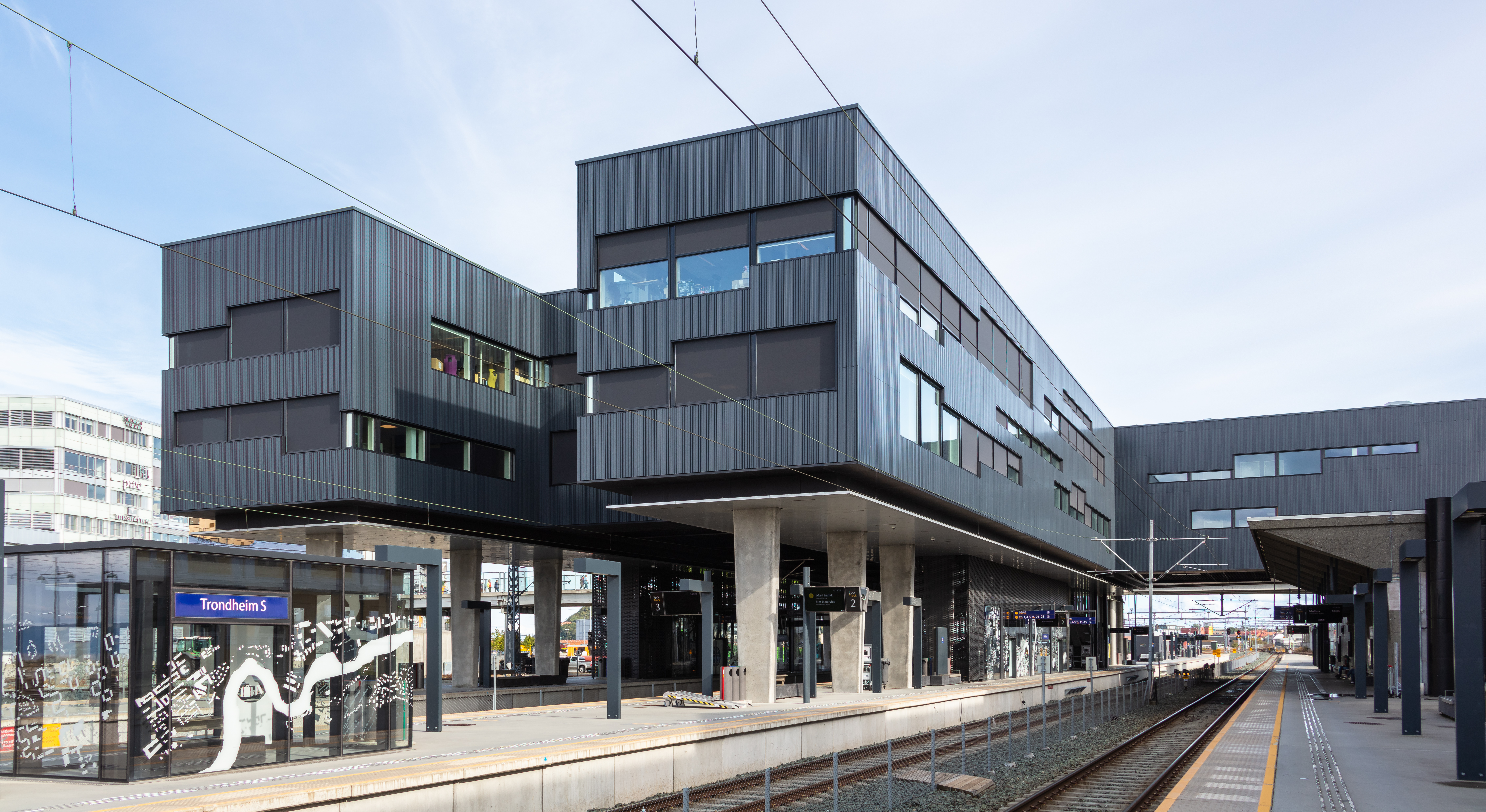 Central railway station, Trondheim, Norway